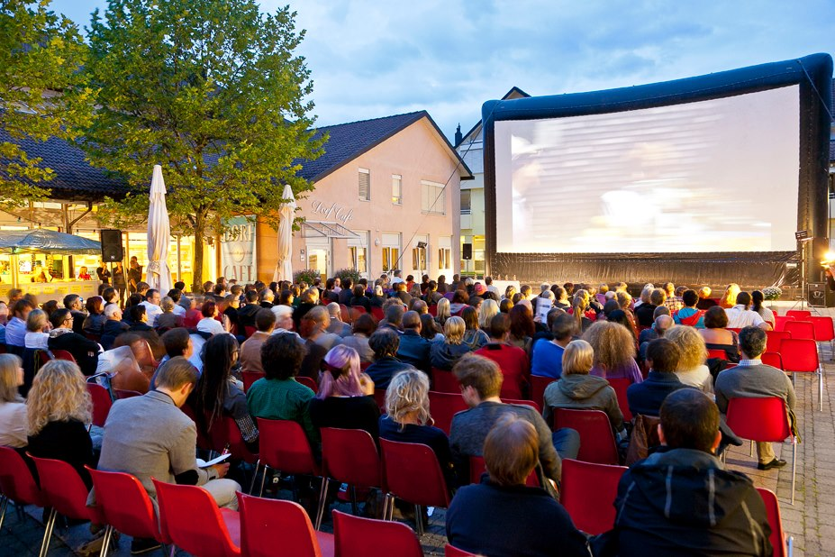 Picture from an Open Air screening at the Short Film Festival ALPINALE in Nenzing, Austria